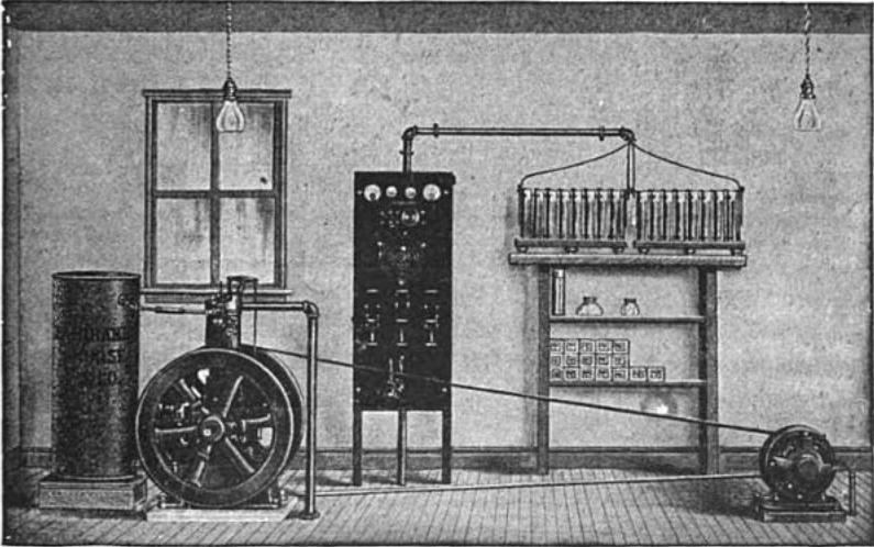 A 2 horsepower vertical gasoline or kerosine engine belted to a 900 watt compound-wound 32 volt dynamo (DC generator), powering a maximum of 42 20-watt or 50 15-watt 32-volt tungsten lamps. The storage battery has 16 cells supplying up to 4.5 amps of power for 7.5 hours at 32 volts. This can supply 7 20-watt bulbs or 9 15-watt bulbs for 7.5 hours. The switchboard is arranged so as to give 24 hours a day continuous service. It is customary to run the engine for most of the lighting period and just use the batteries late at night. Scanned by Google Books